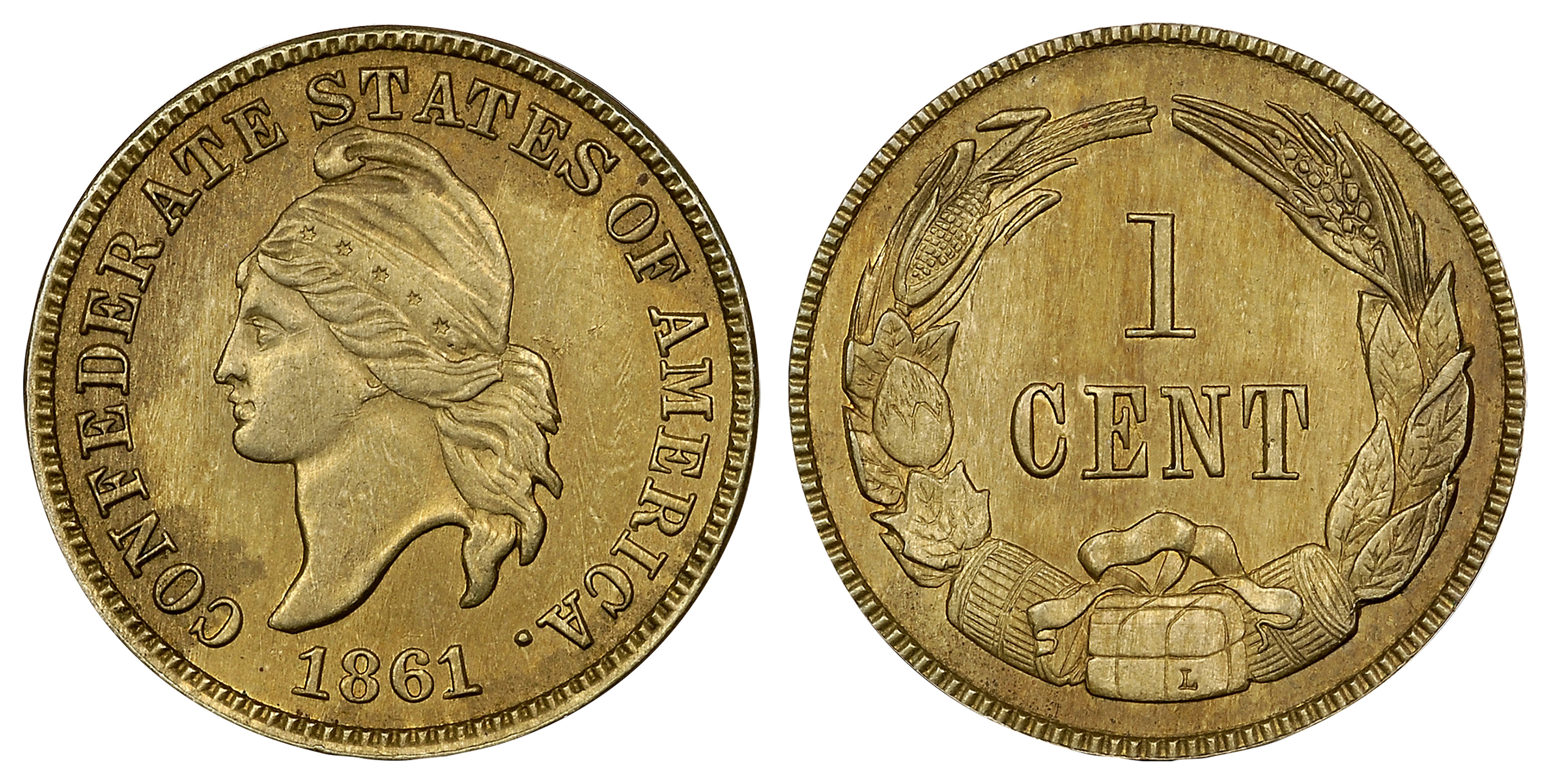 1861 1C Original CSA Cent(1216-5849)One of 14 examples known to exist.Obverse: Columbia (the personification of the New World in general - and America in particular). She is wearing a Phrygian cap, representing Revolution, Freedom, and Liberty.Reverse: A wreath of Southern staple crops: a bale of cotton flanked by barrels of molasses (in base), yam leaves and an ear of corn (left branch), tobacco leaves and an ear of wheat (right branch).